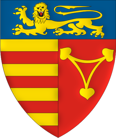 Coat of arms of Sibiu County, Romania.